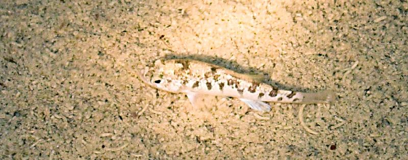 Devil's River Pupfish (subspecies of Conchos Pupfish) Cyprinodon eximius ssp.